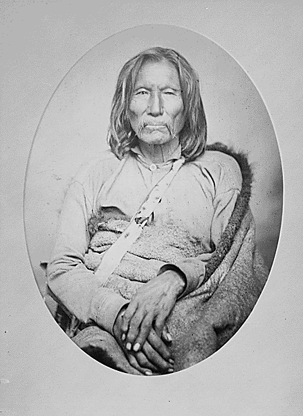 Sitting Bear (Satank, Set-angya), a Kiowa chief; half-length, seated , 1868 - 1874